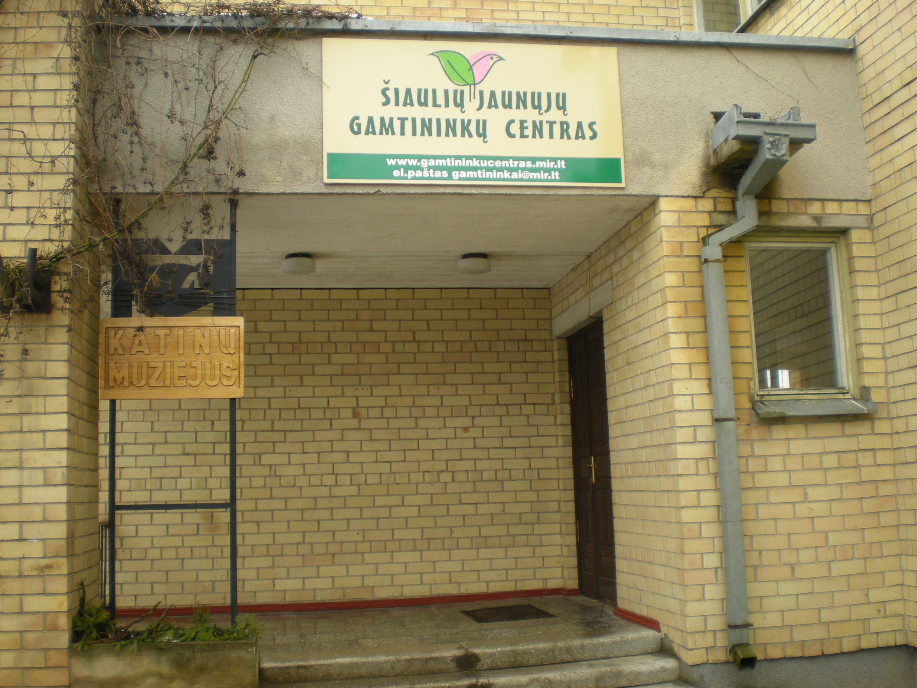 Šiaulių jaunųjų gamtininkų stotis